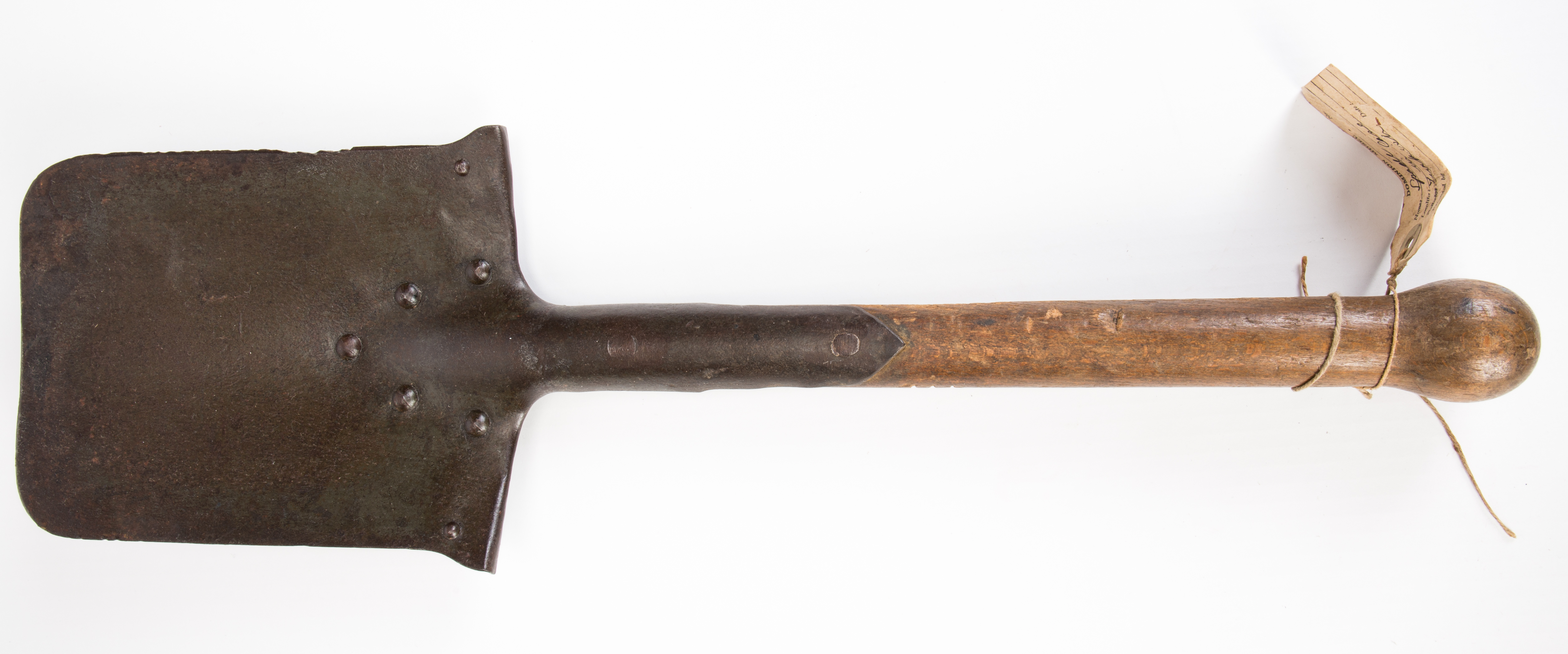 Turkish spade, WW1 wooden handle; square metal blade; upper end of blade folded over and riveted on reverse; handle fits into metal socket riveted to blade and partly formed as an extension of the blade; short wooden handle ends in circular knob markings- 'HD' engraved on handle Spade found with label stating 'Turkish', but it is possibly German-made. The style of its manufacture with the upper end of the blade being folded over and riveted is characteristic of German manufactured shovels of WW1.